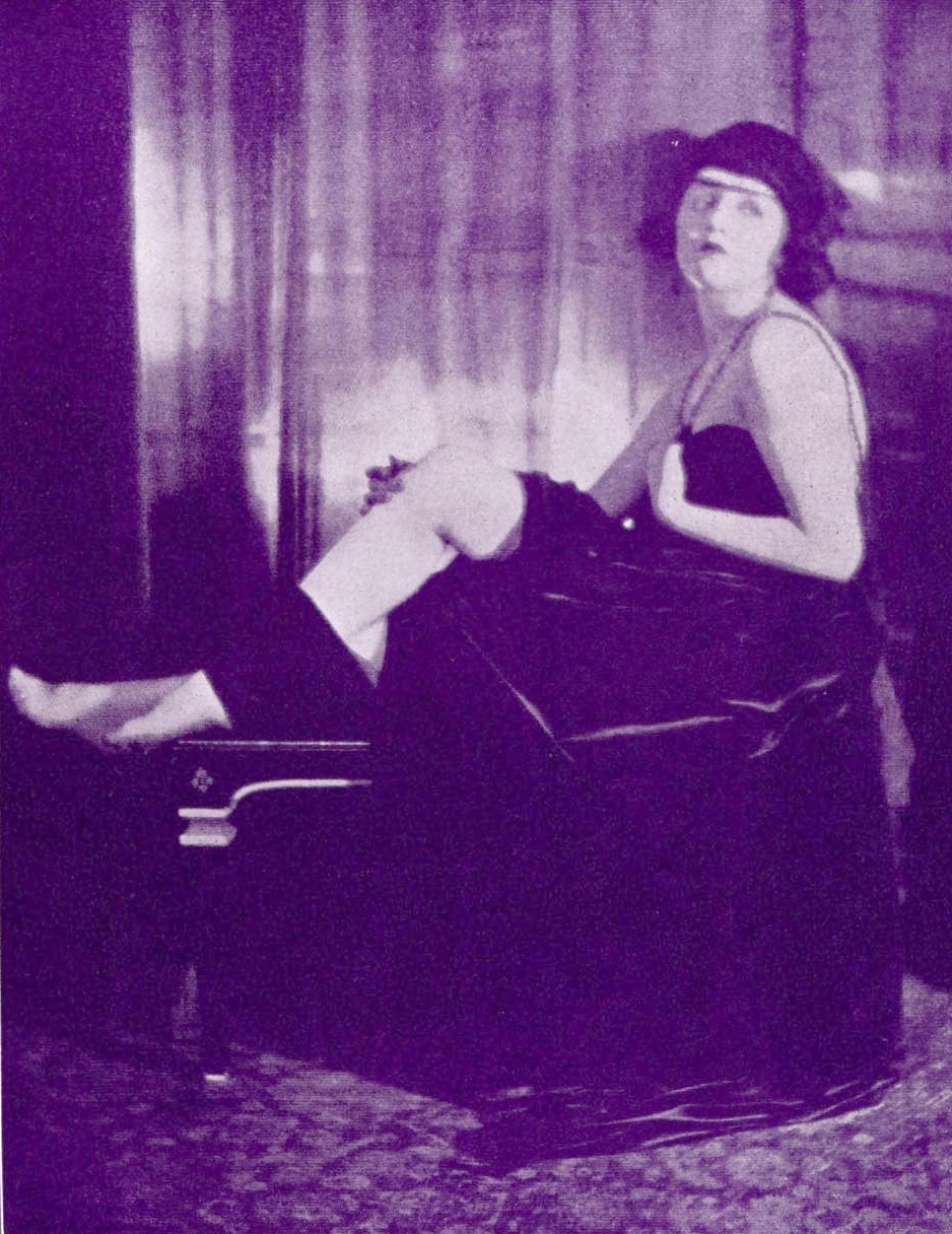 Bebe Daniels in Filmplay Journal, August 1921